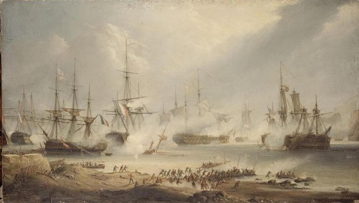 The battle of Algeciras